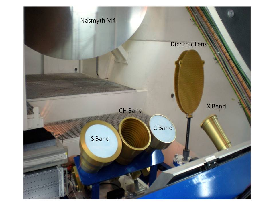 Tim Finn CAY